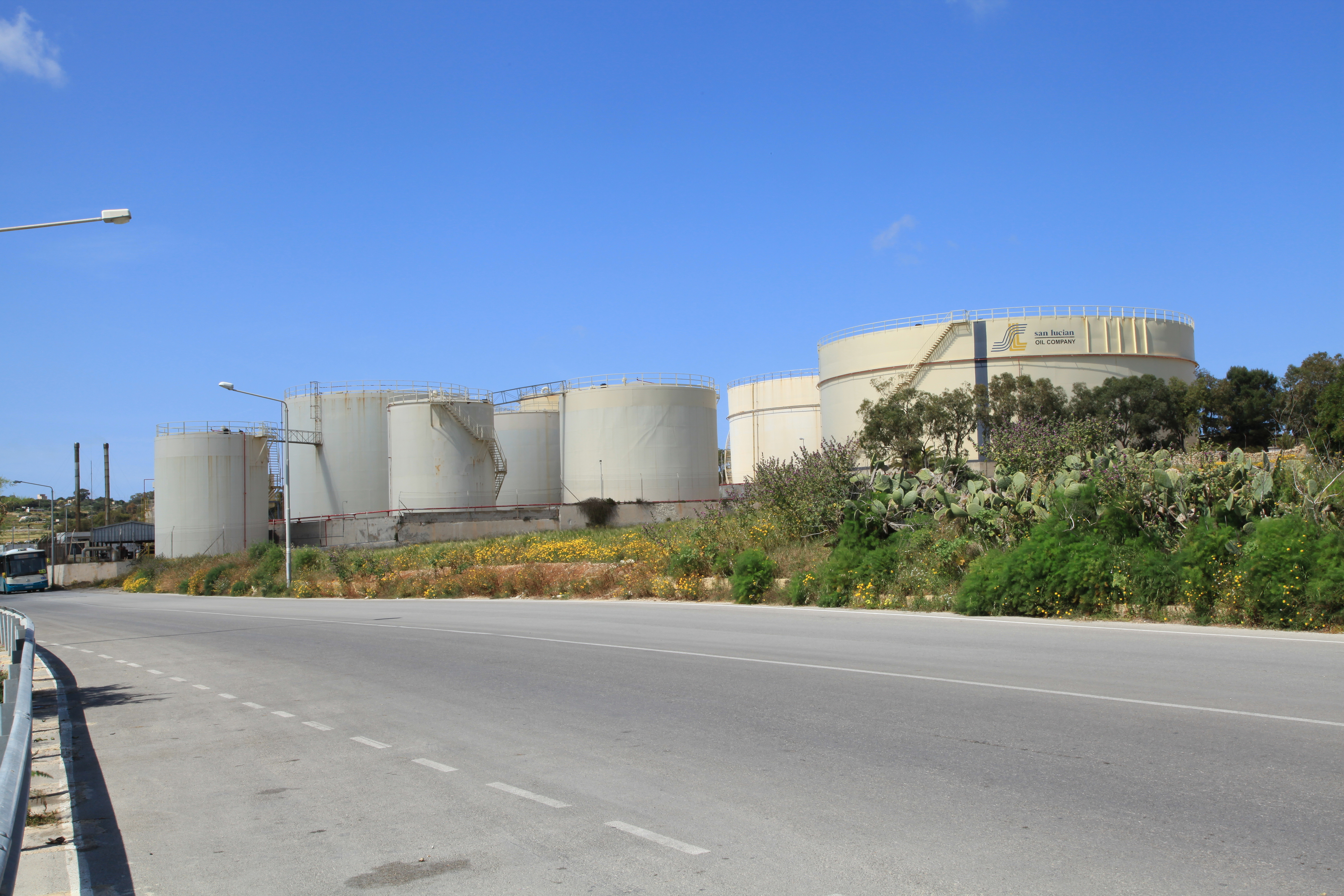 San Lucian Oil Company at Triq il-Qajjenza in Birżebbuġa